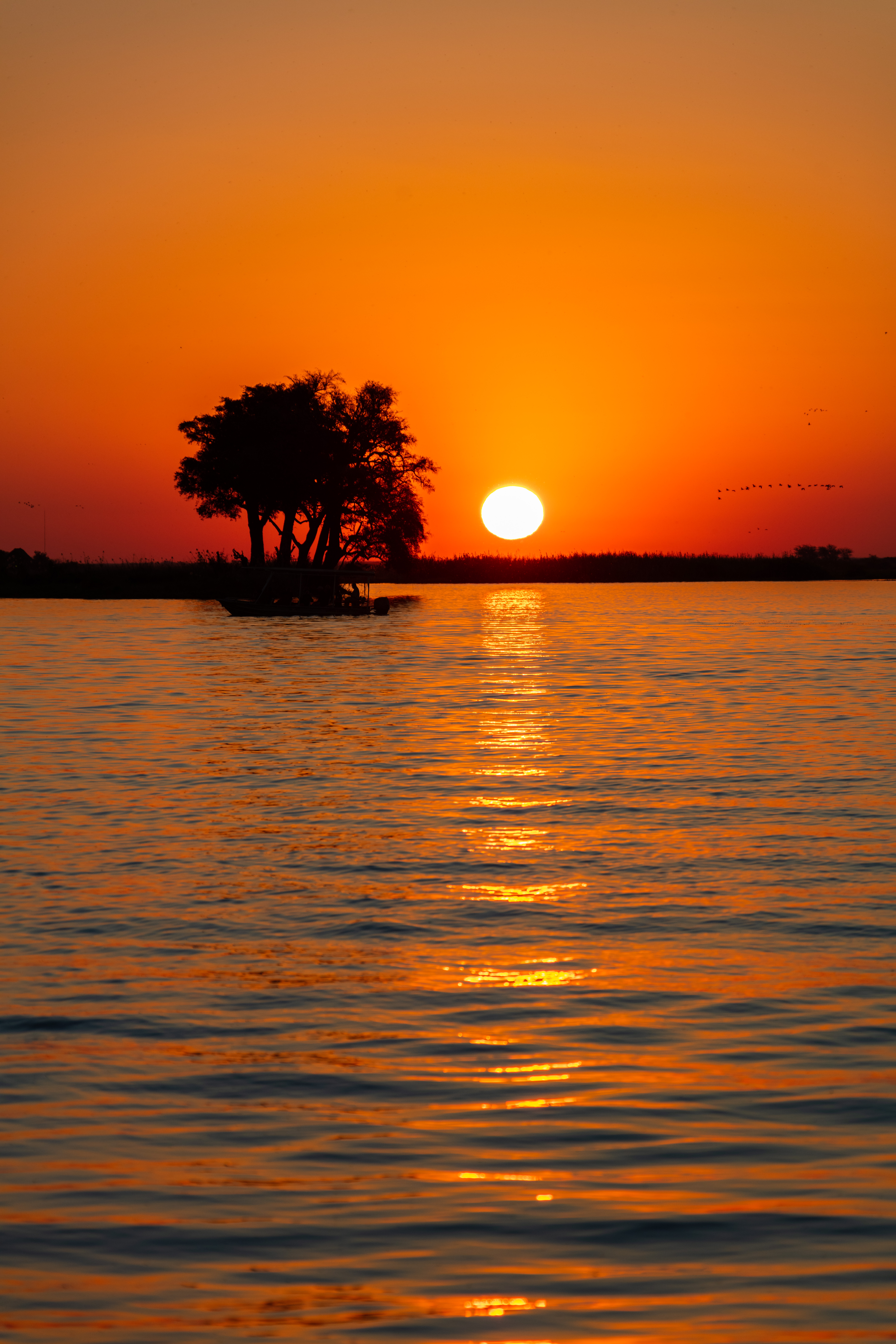 Sunset over the Chobe River, Chobe National Park, Botswana